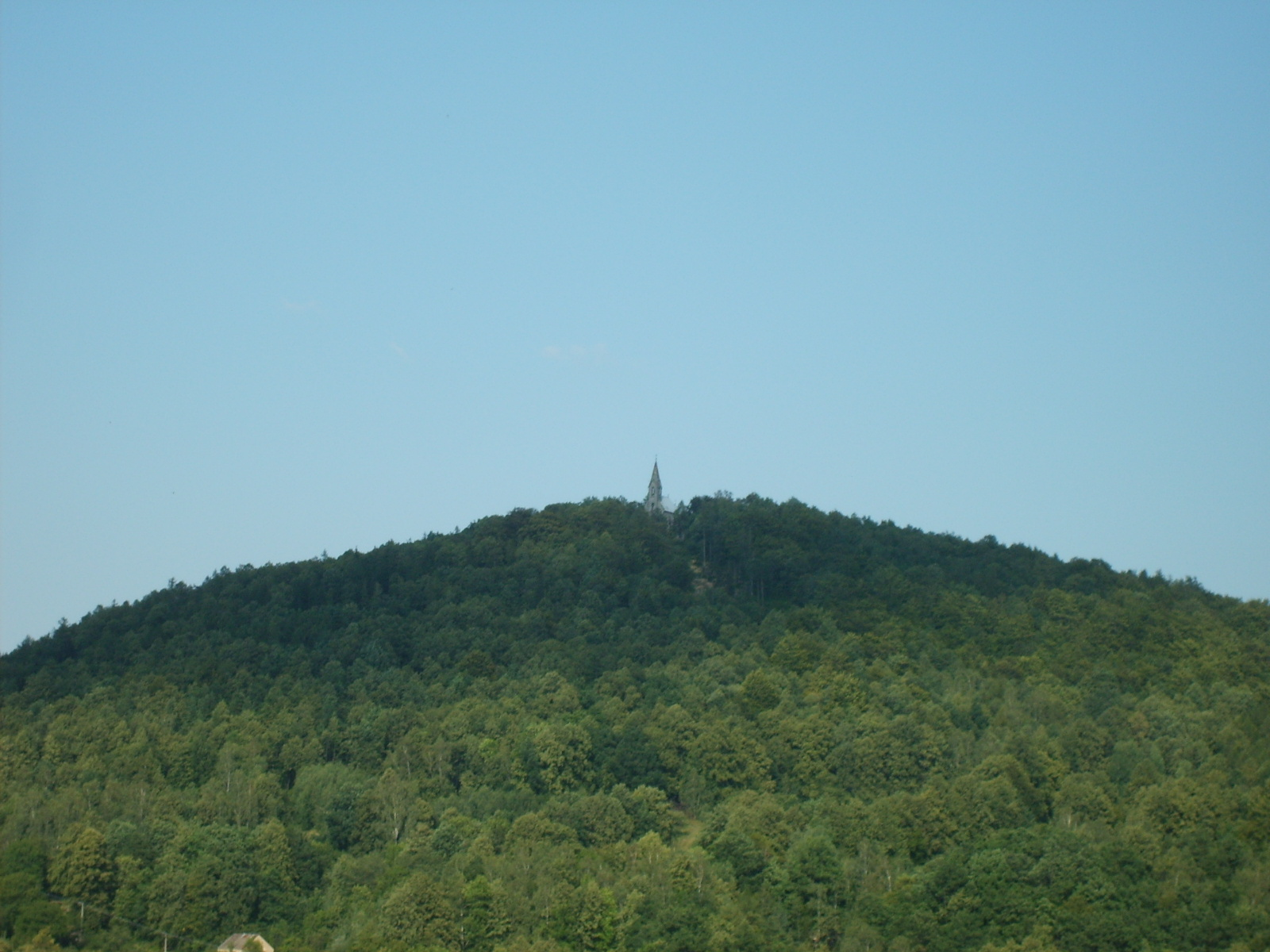 Chapel on Boží hora hill above Žulová.